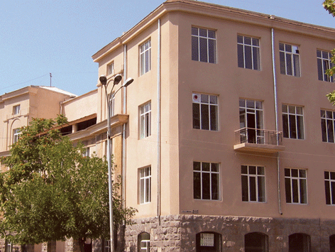 Yerevan, National Polytechnic University of Armenia, Building 1